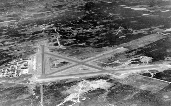 Aerial view of St. John's International Airport runways, Torbay, Newfoundland